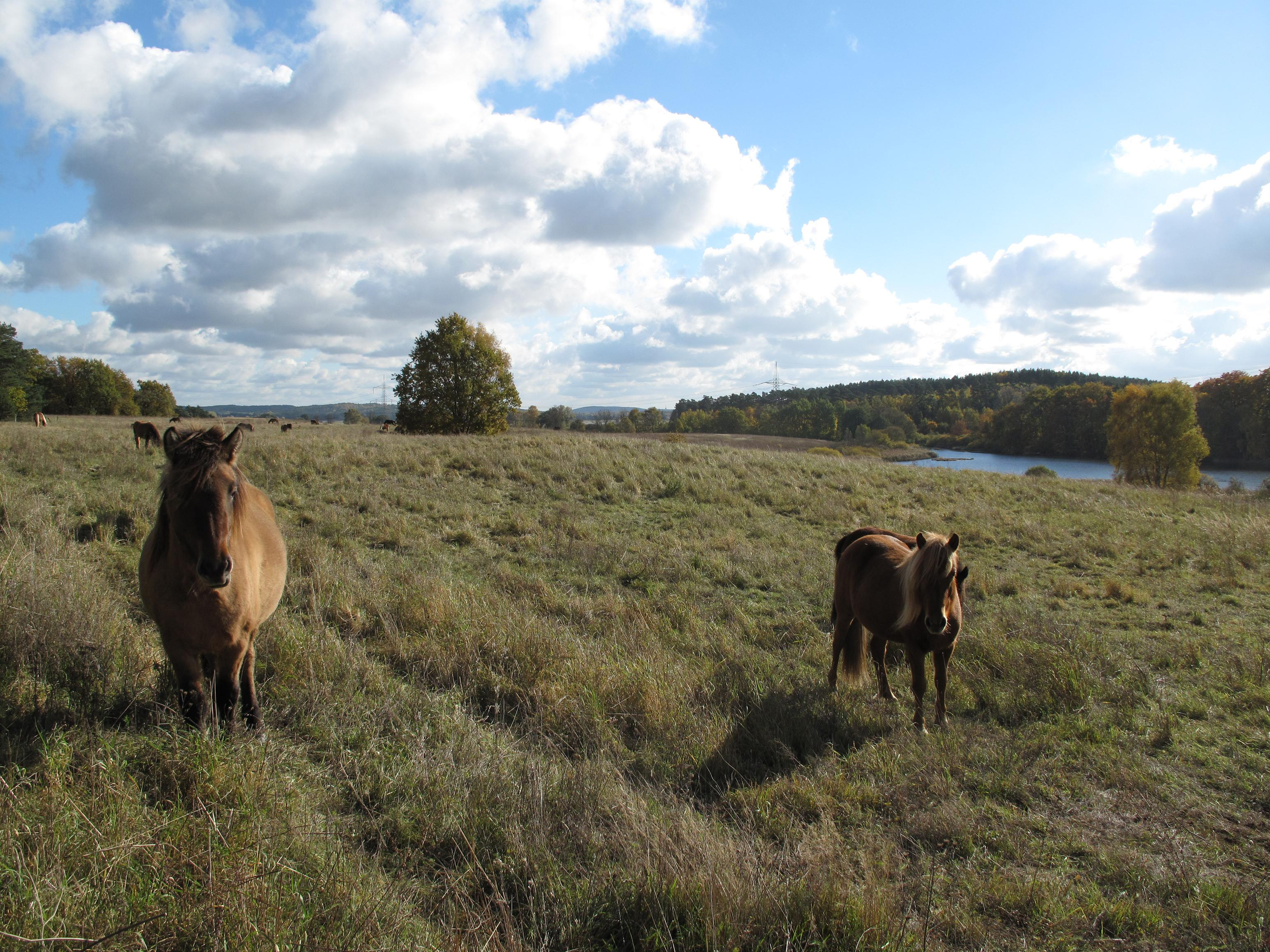 Horse pasture (former arable land) over the northern bank of the Poschfenn.The Poschfenn is a lake (fen) in Stücken and Fresdorf, parts of the municipality Michendorf in the district Potsdam-Mittelmark, state Brandenburg, Germany. The lake covers 0,06 km² and is situated in the Nuthe-Nieplitz Nature Park.